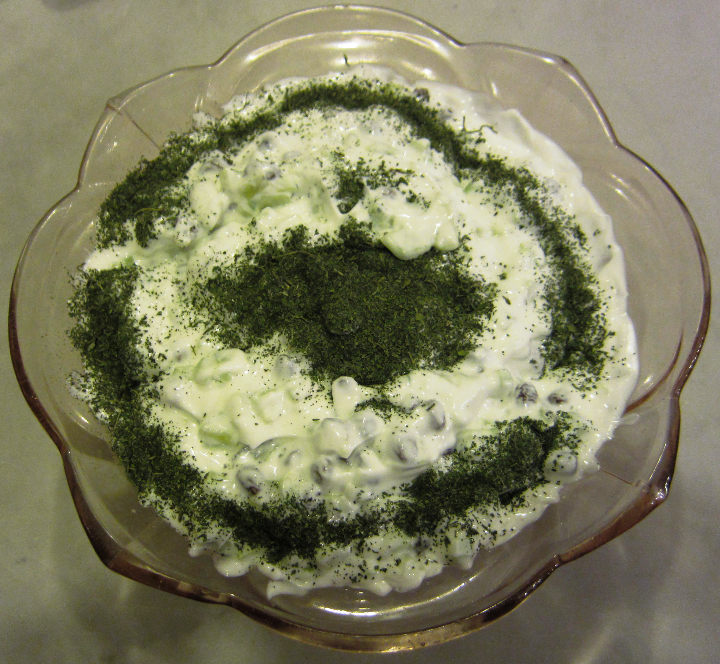 Mast-Khiar, an Iranian side dish made from yogurt and cucumber